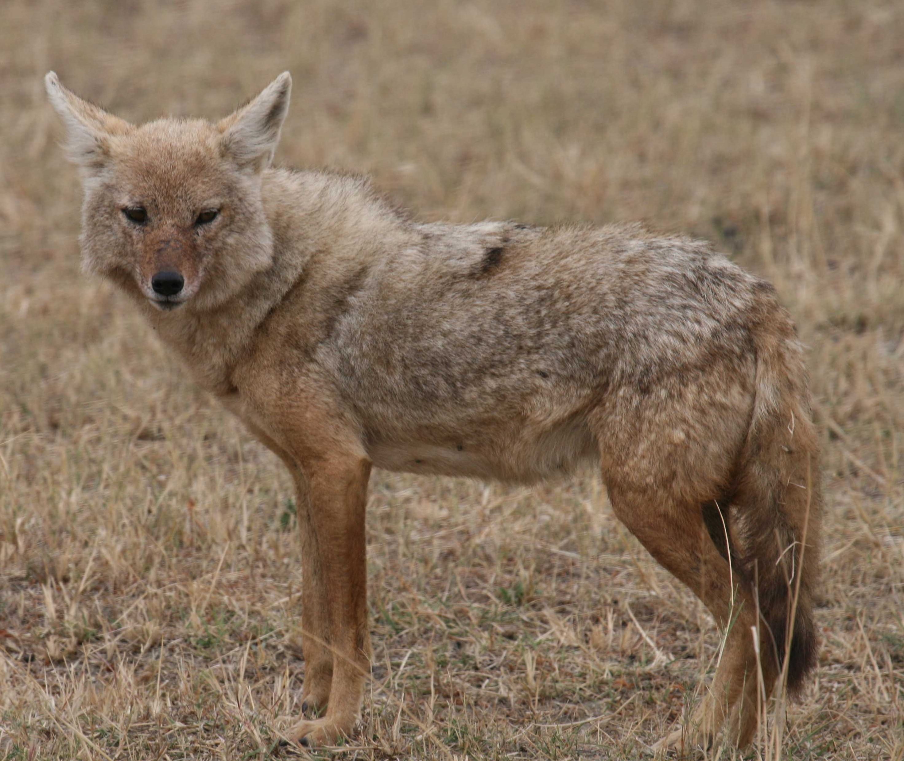 Golden wolf in Ngorongoro Crater, Tanzania. Photo by Lee R. Berger